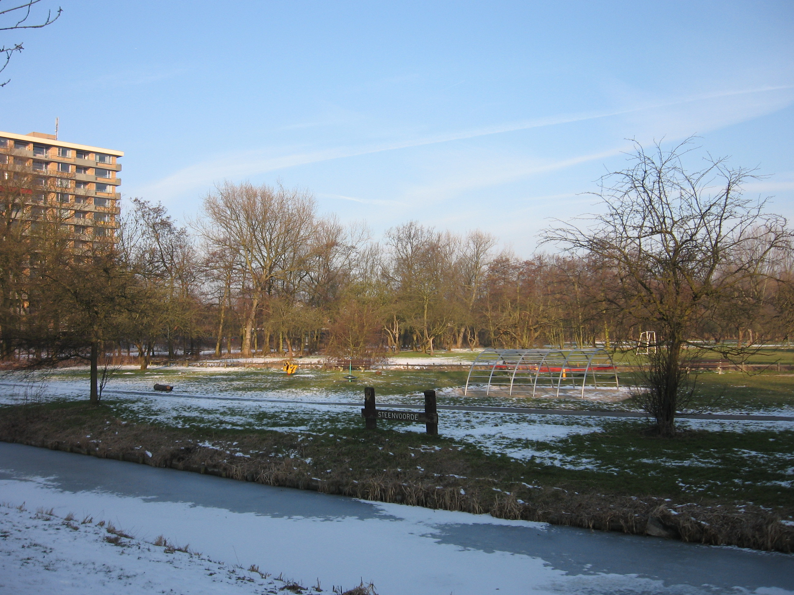 Rijswijk - Steenvoorde